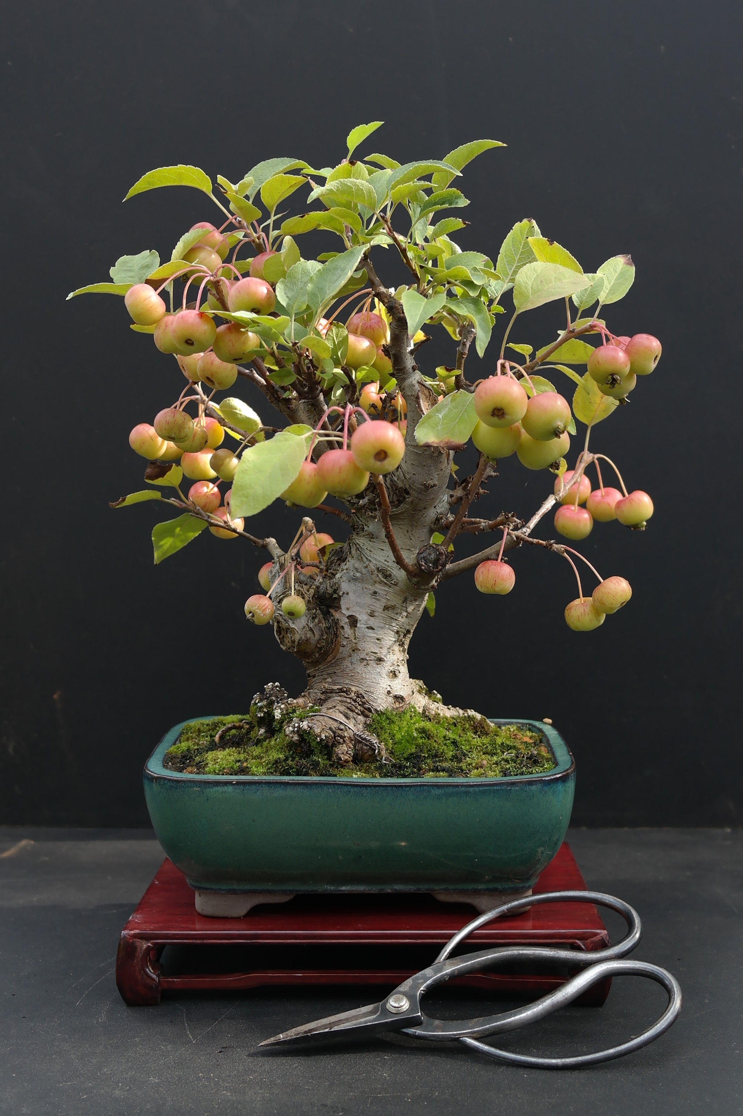 Photograph of Jerry Norbury's Crabapple bonsai tree taken in August 2015. Malus.